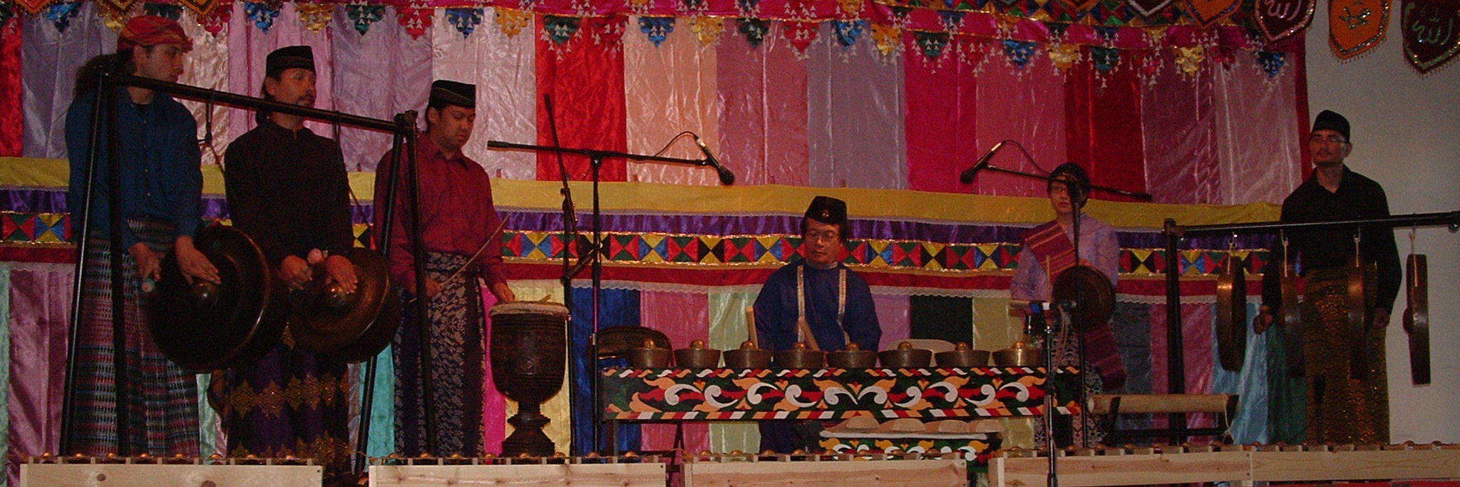 The five instruments of gongs and a drum that make up the Philippine kulintang ensemble. It is anchored by the horizontally laid, knobbed gongs known as the kulintang used as a main melodic instrument in the kulintang ensemble. Here, it is being played by the Palabuniyan Kulintang Ensemble at the Filipino Culture Center, San Francisco.